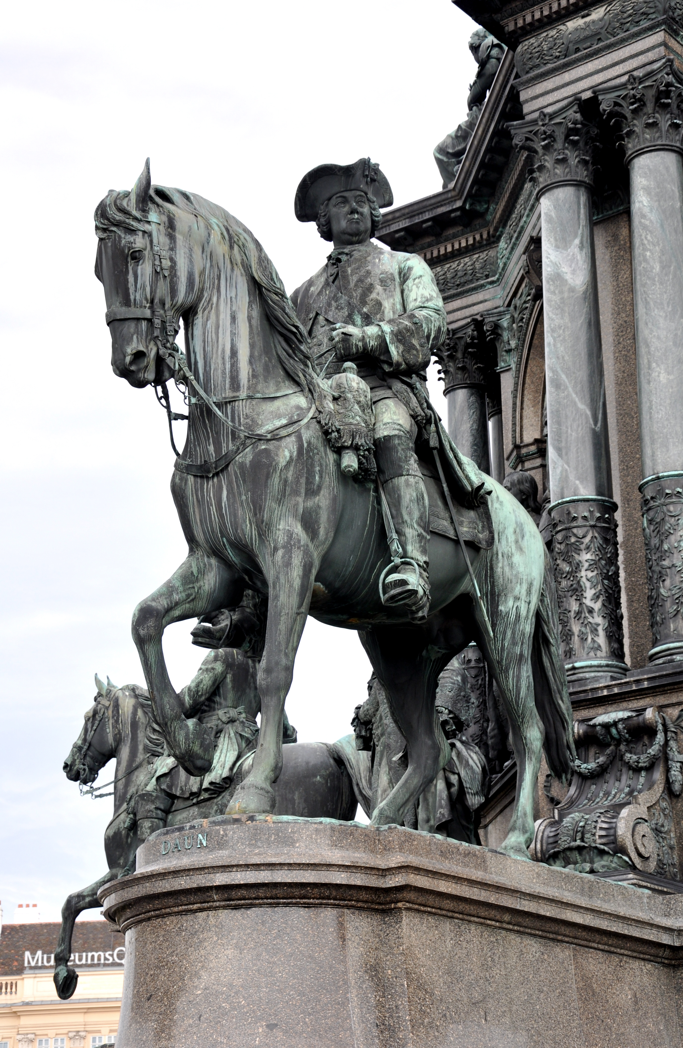 Austria, Vienna, Maria-Theresien-Platz